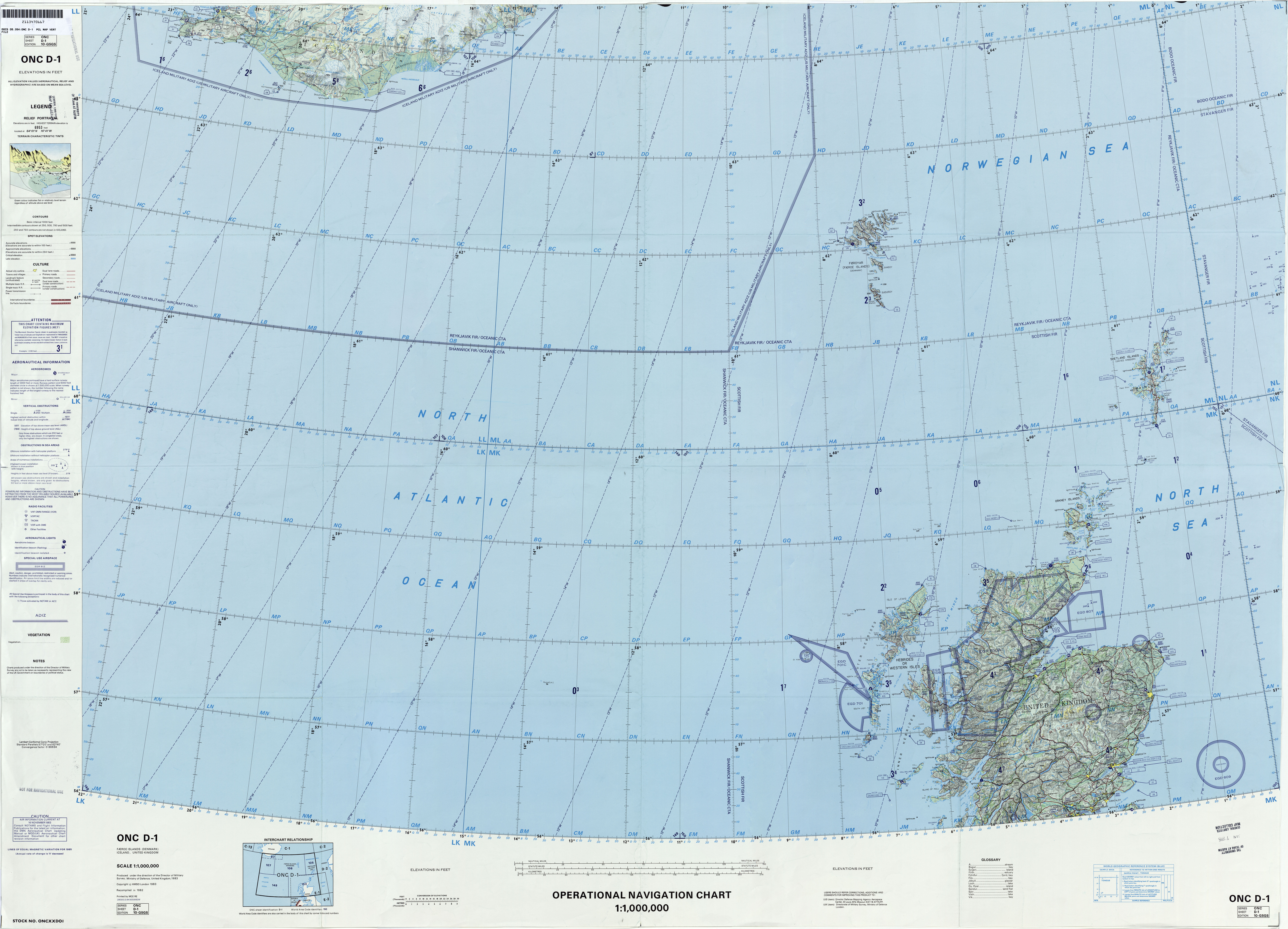 Operational Navigation Chart Series - World 1:1,000,000 Scale